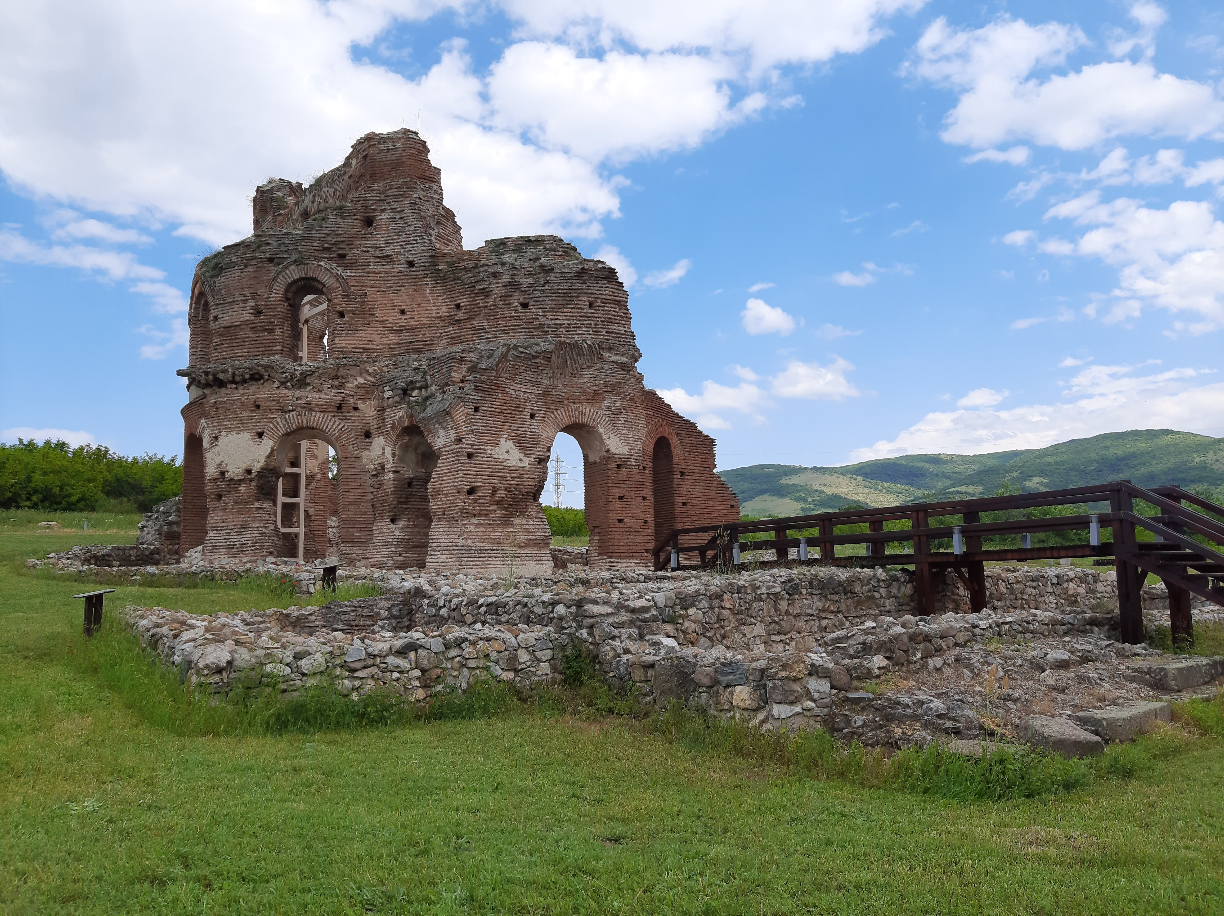 Red Church in Perushtitsa, Bulgaria